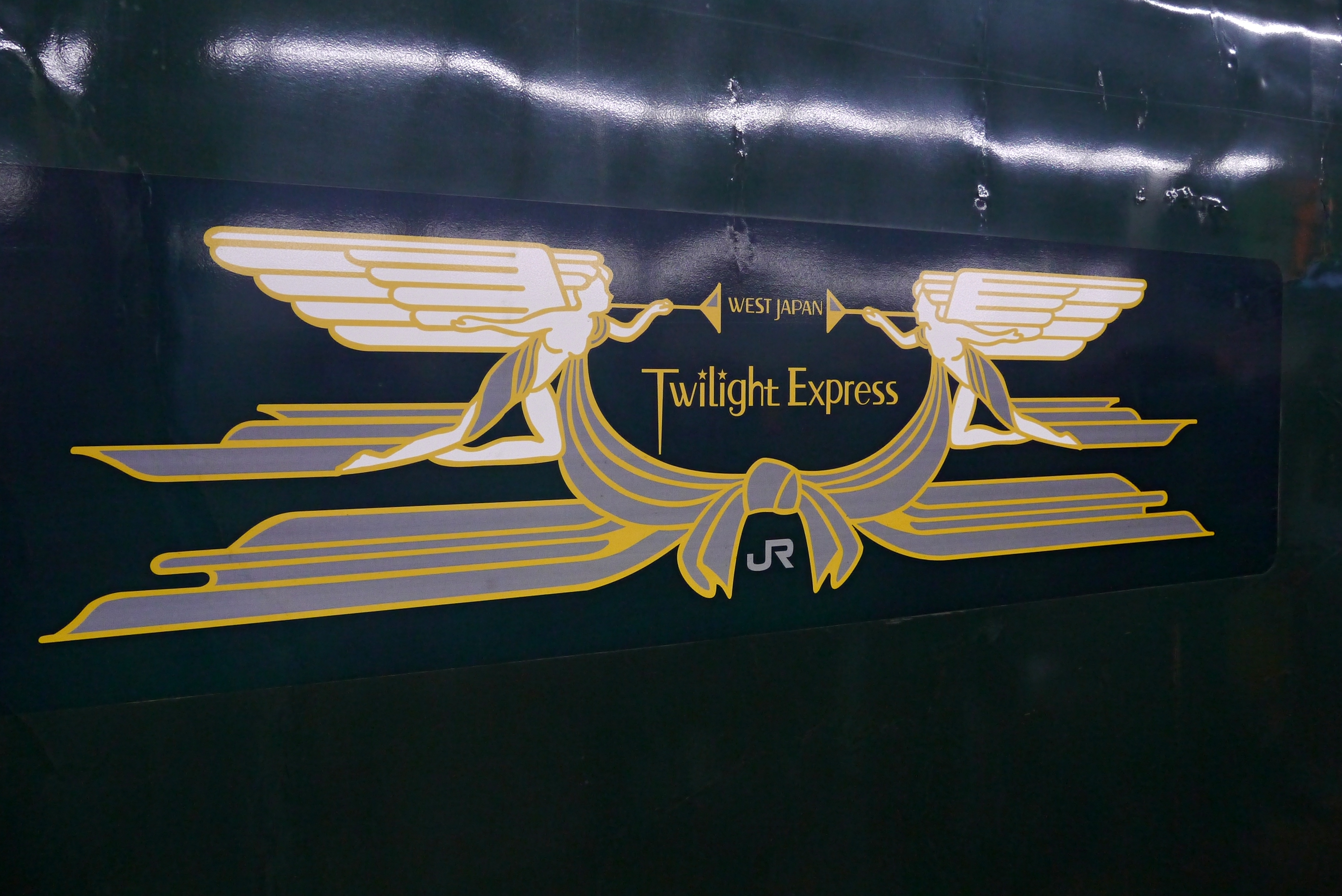 The logo on the side of a Twilight Express sleeping car train at Osaka Station in Japan